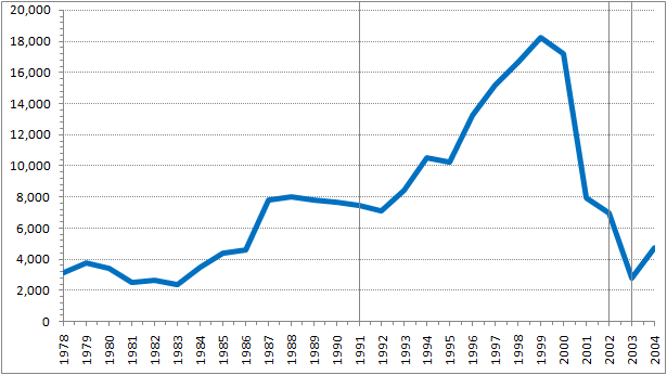 Wimbledon F.C. attendances since 1977, sourced from [1]